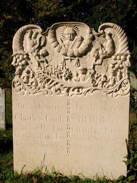 Tombstone, St Mary's Church, Walberton